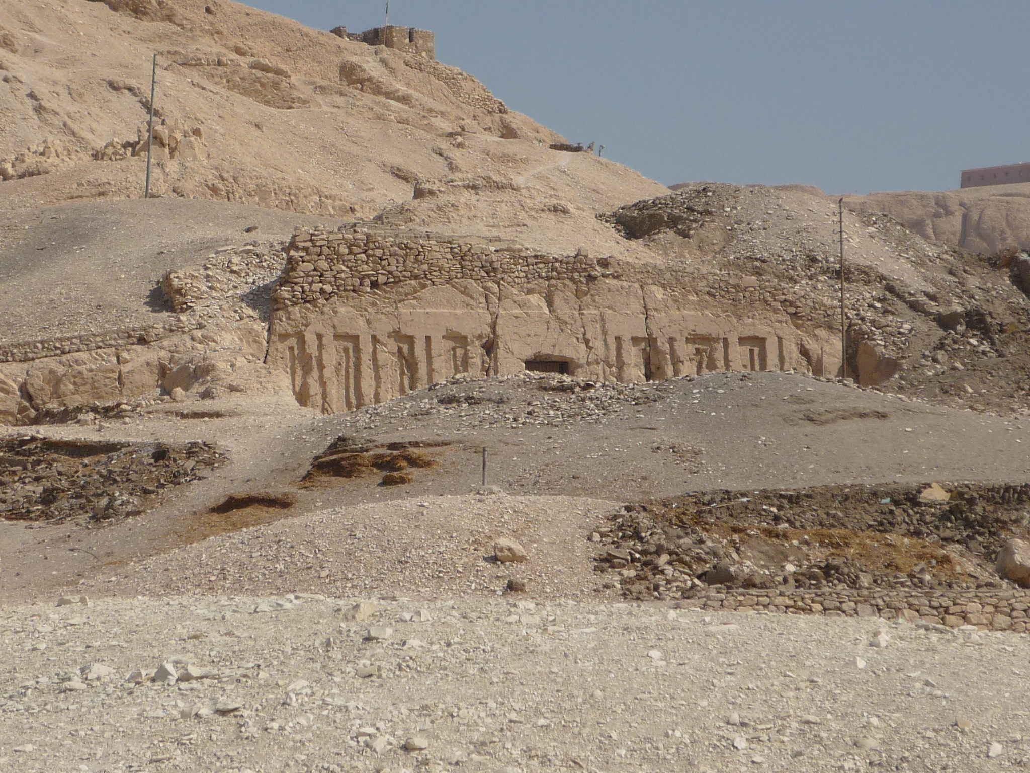 Valley of the Nobles, Theban Necropolis, Egypt